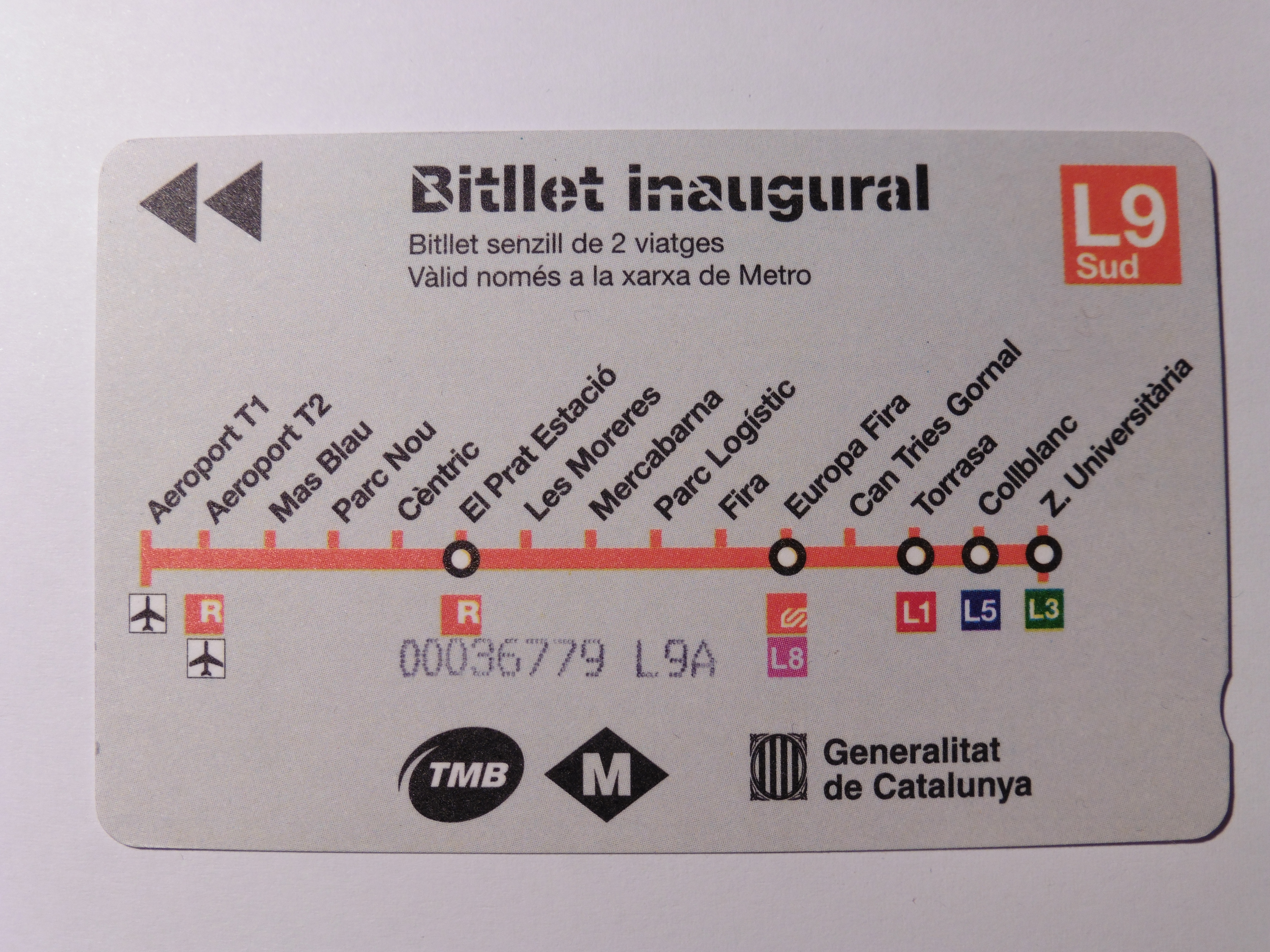 Inaugural ticket of the "L9 Sud" (L9 south) branch of the Barcelona Metro line 9, handed out to the passengers the February 12, 2016.